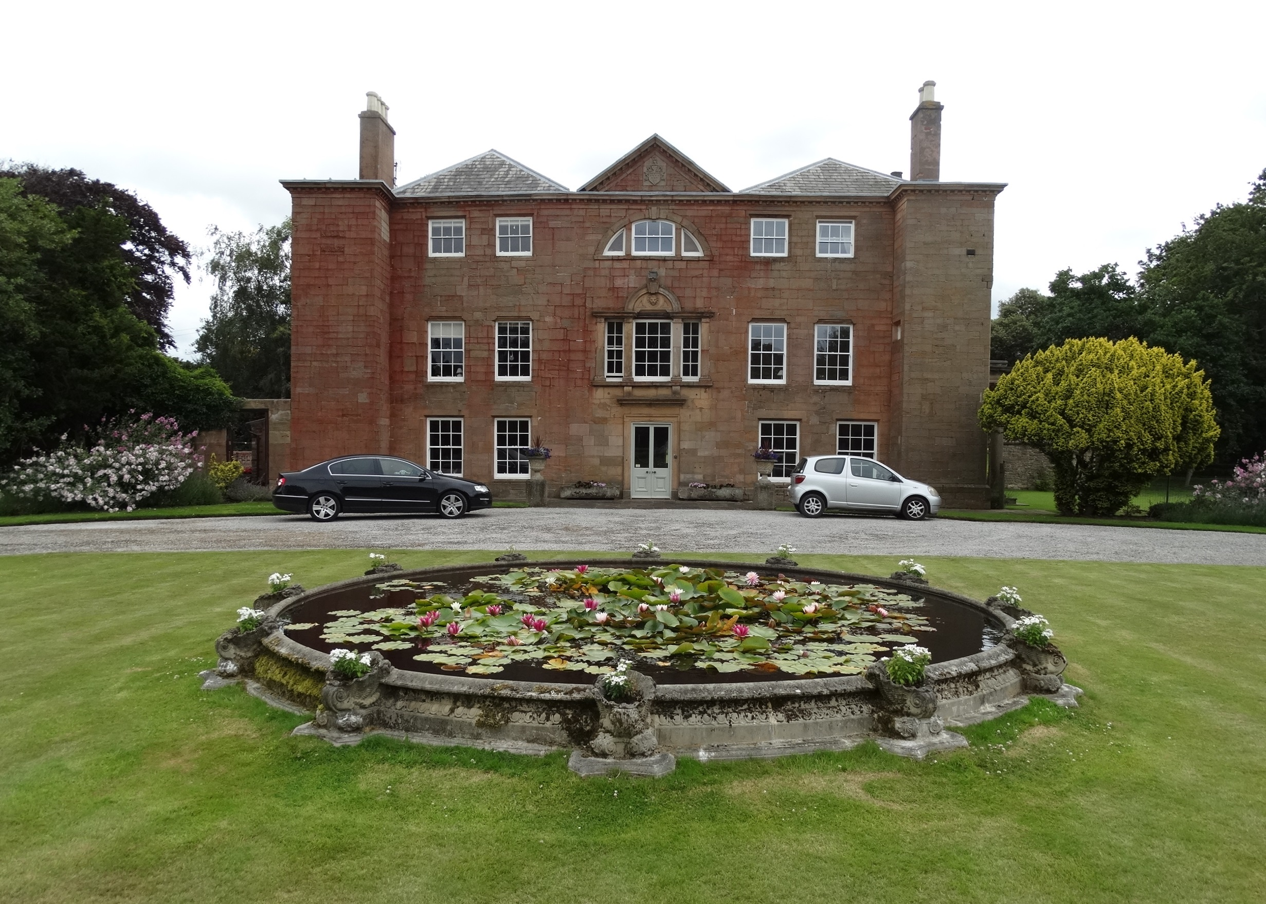 Crosby Hall, Little Crosby. Used in the Sherlock Holmes episode "The Bruce Partington Plans" (1990) starring Jeremy Brett.